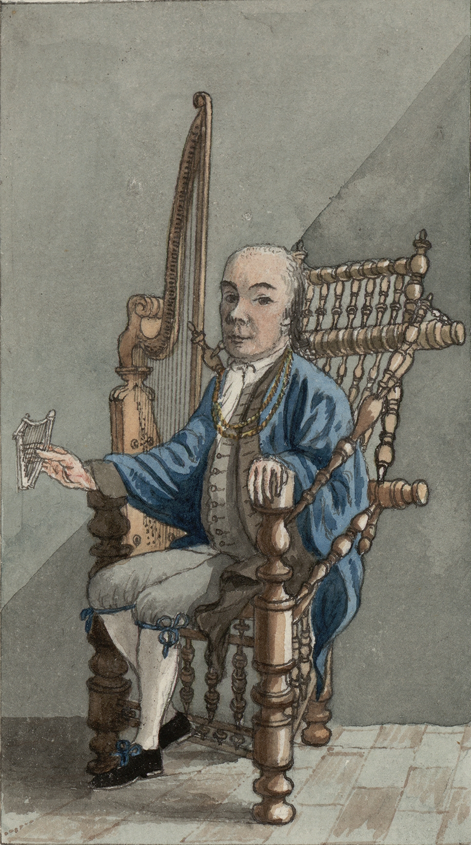 An image from a set of 8 extra-illustrated volumes of A tour in Wales by Thomas Pennant (1726-1798) that chronicle the three journeys he made through Wales between 1773 and 1776. These volumes are unique because they were compiled for Pennant's own library at Downing. This edition was produced in 1781. The volumes include a number of original drawings by Moses Griffiths, Ingleby and other well known artists of the period. Thomas Pennant (1726-1798)